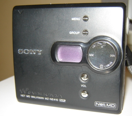 Sony Net MD Walkman MZ-NE410 Portable MiniDisc Player